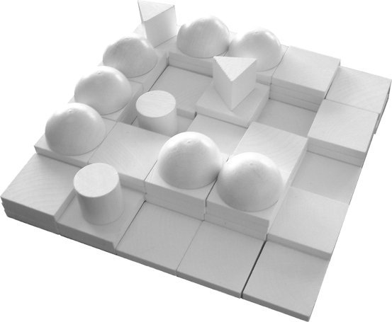 Santorini board game.